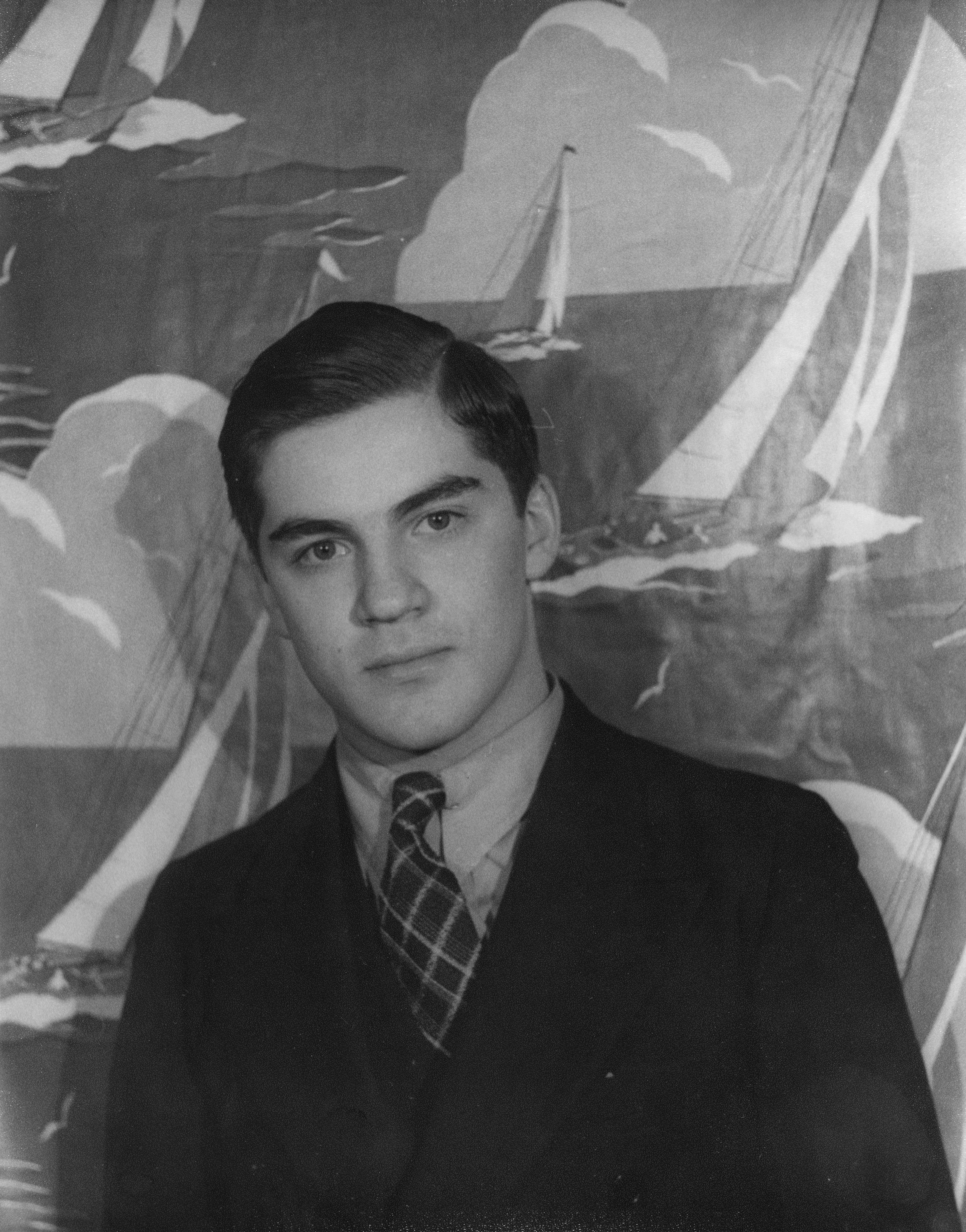 Carl Van Vechten (1880-1964)/LOC ds.00954. Victor Kraft, 1935